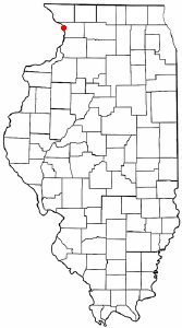 Category:Illinois city locator maps